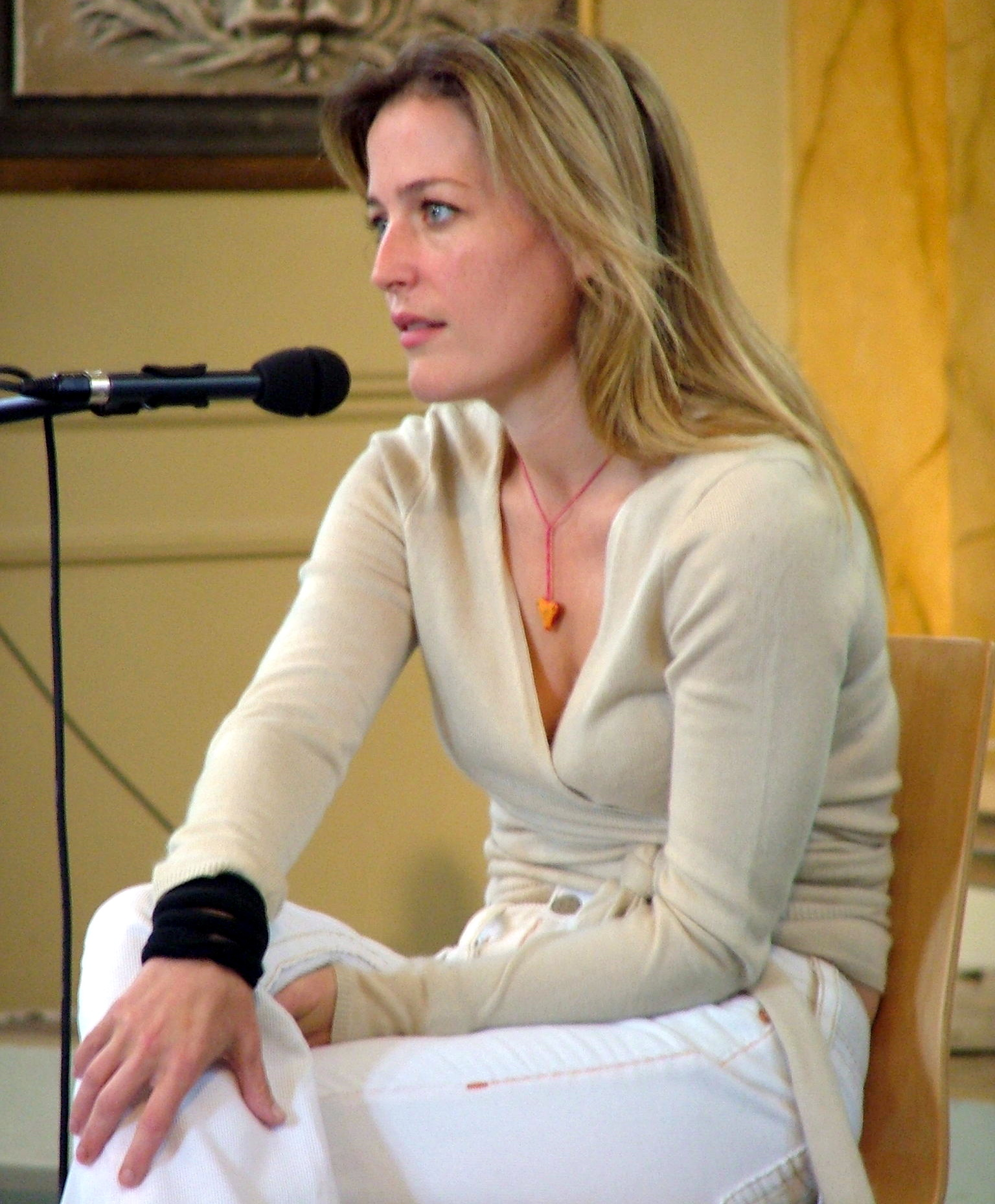 Gillian Anderson at Buskaid in London, 2004